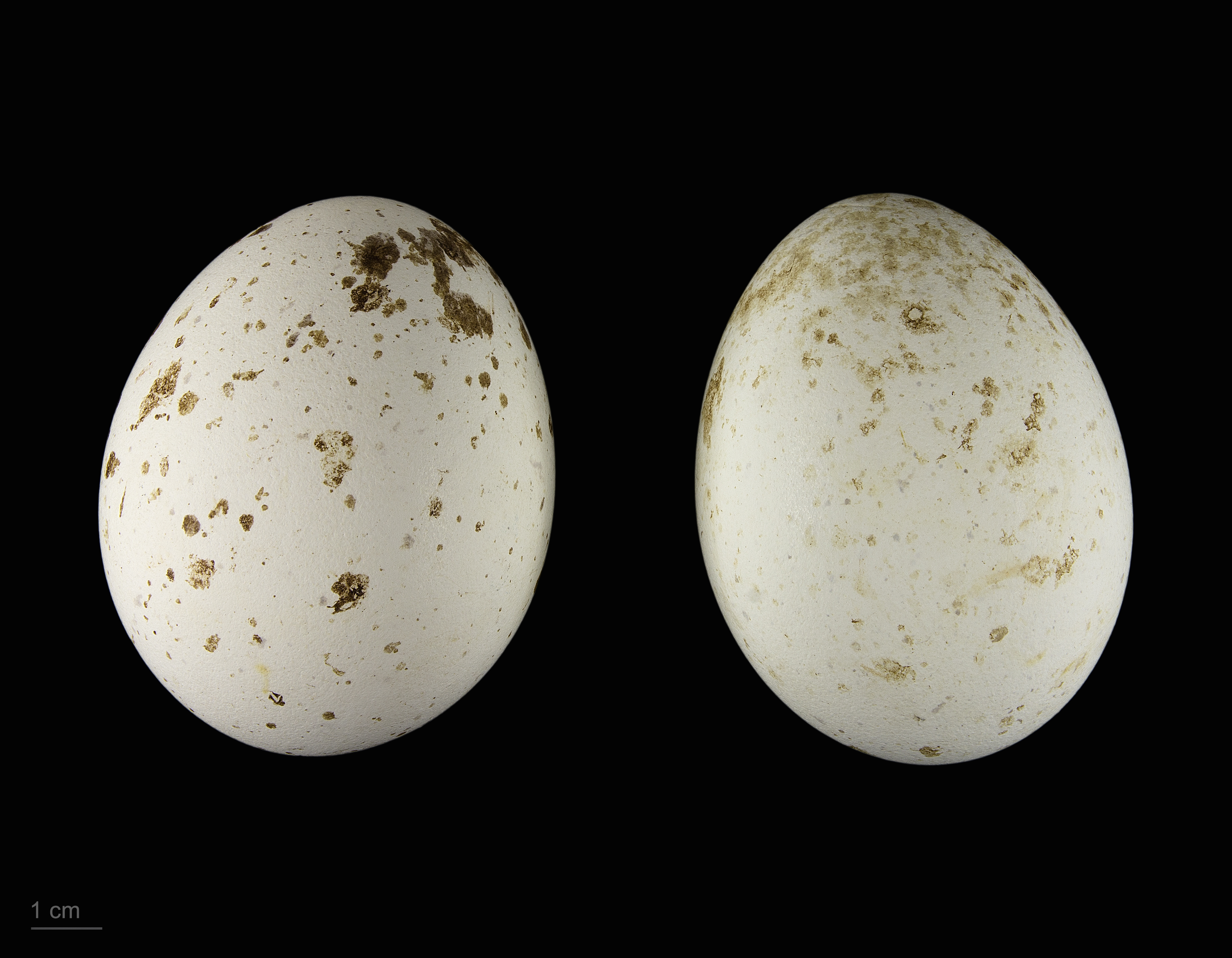 Eggs of Aquila rapax belisarius Two specimens of the same spawn ; collection of Jacques Perrin de Brichambaut.